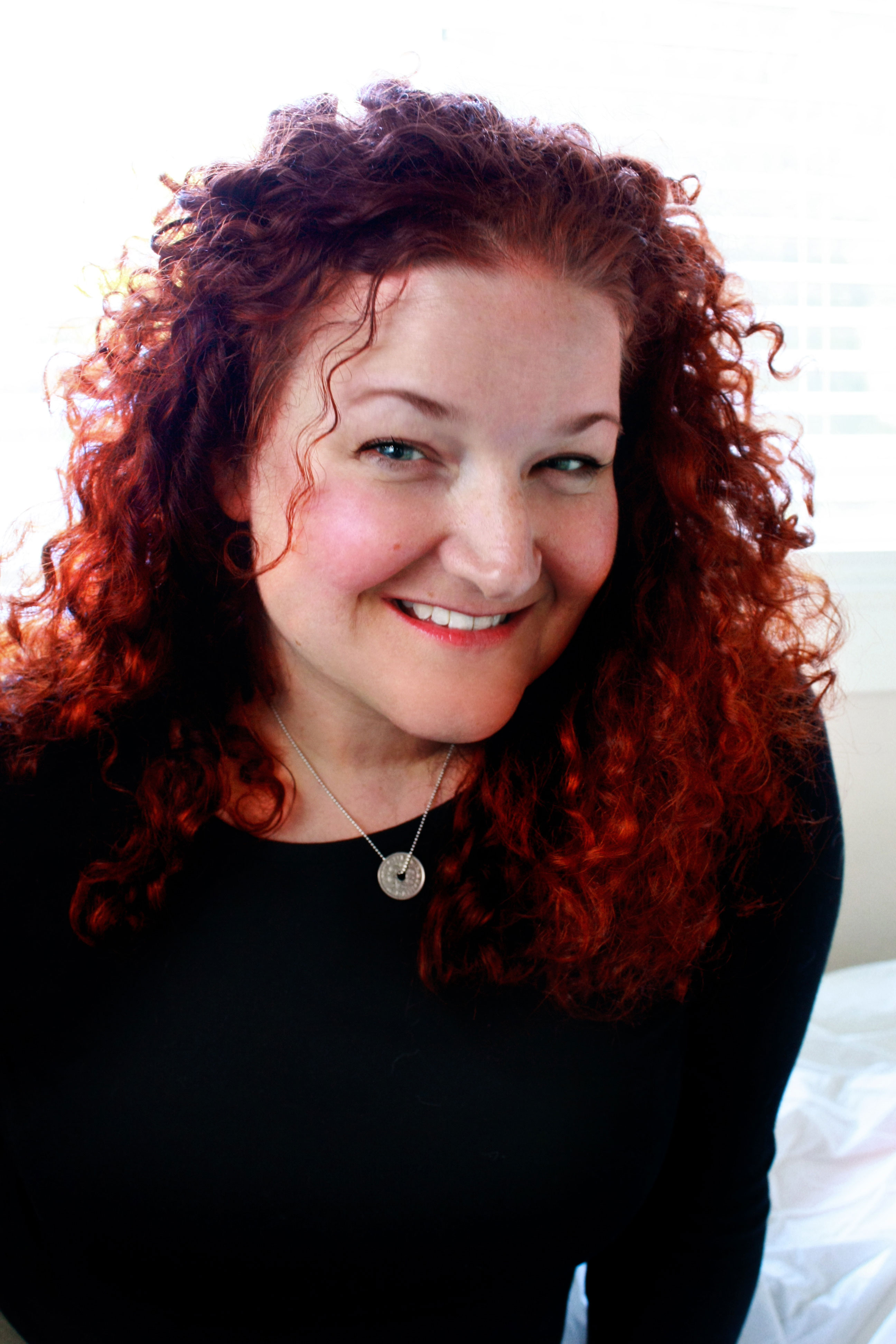 Headshot of Nicki Rapp